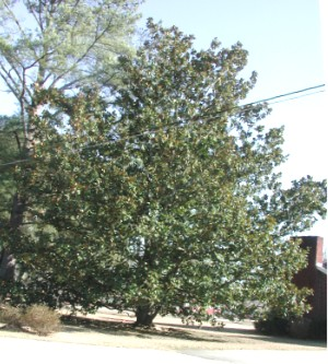 Southern Magnolia (Magnolia grandiflora) - a large tree